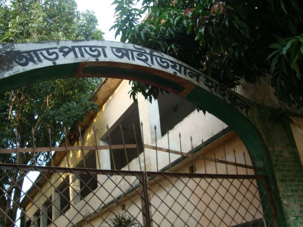 School gate of Arpara Ideal High School